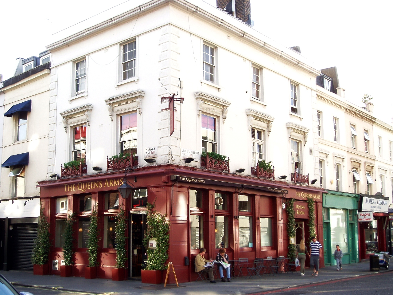 It's quite a nice place, with a separate dining room upstairs. Wines are good quality. Address: 11 Warwick Way (formerly Warwick Street). Former Name(s): The Page; Slug and Lettuce; The Royal Gardener. Owner: Food and Fuel (website); Enterprise Inns (former). Links: Randomness Guide to London Fancyapint Dead Pubs (history)